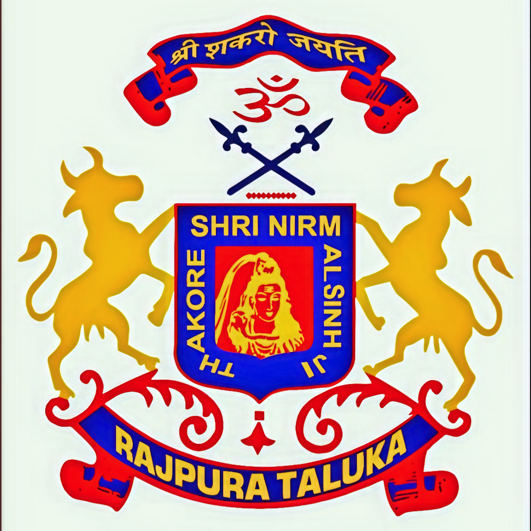 Is the official emblem of the State of Rajpura.